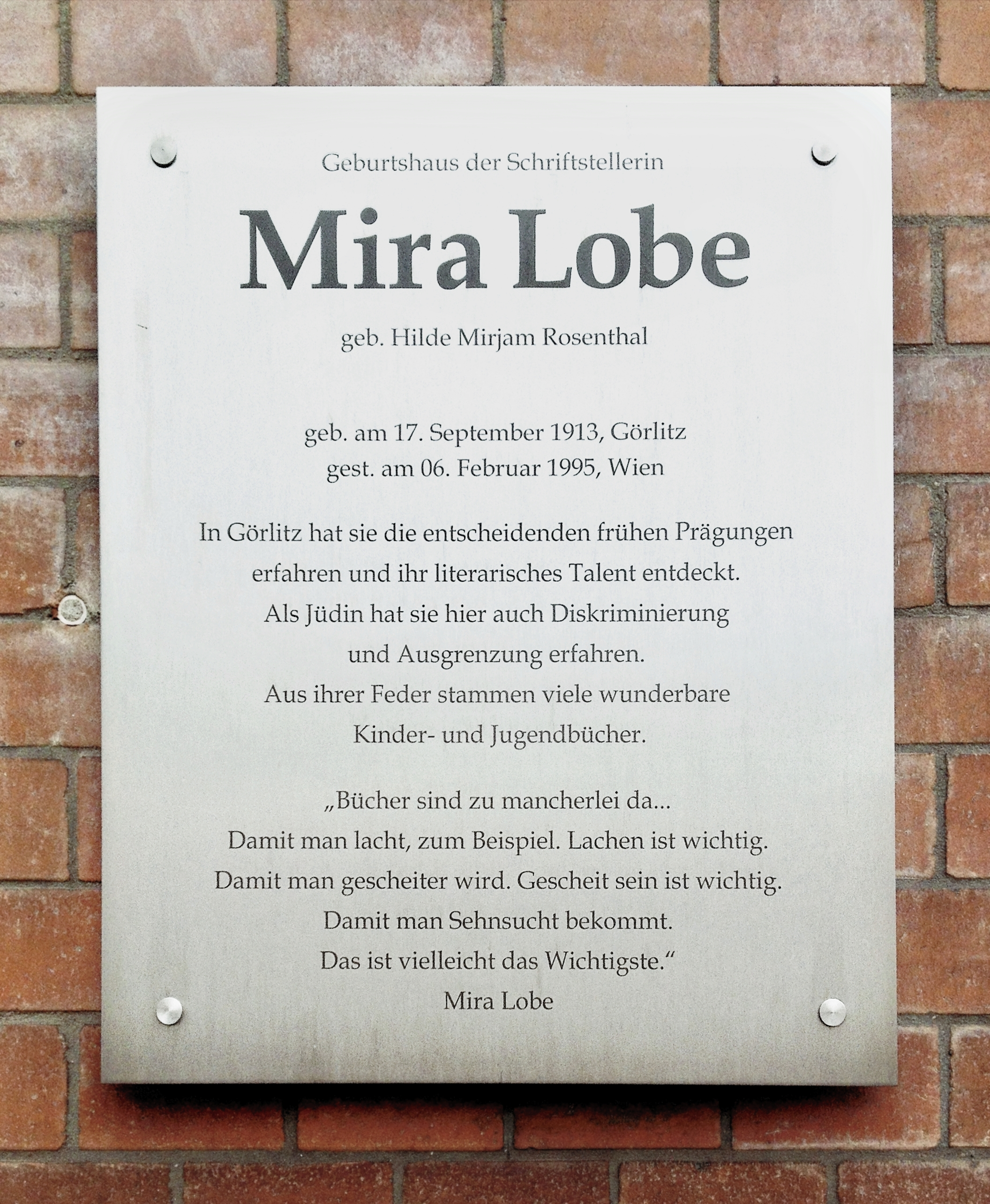 Memorial plaque for Mira Lobe in Görlitz